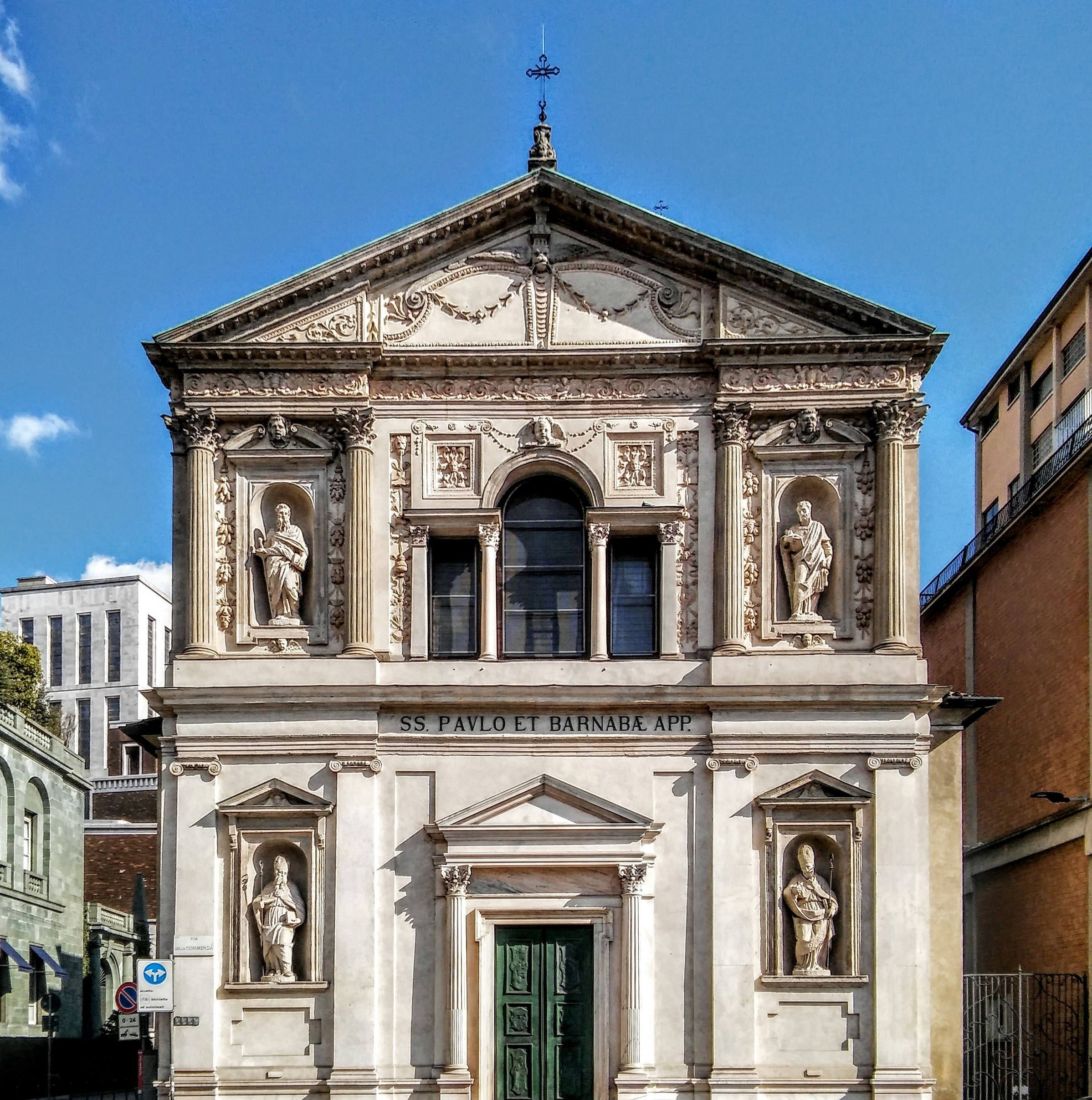 Facade of the church of San Barnaba, Milan